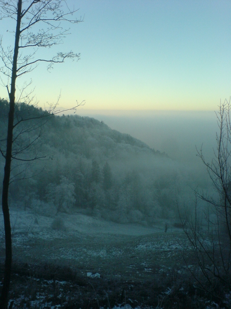 Descending into a stratus cloud from Uetliberg